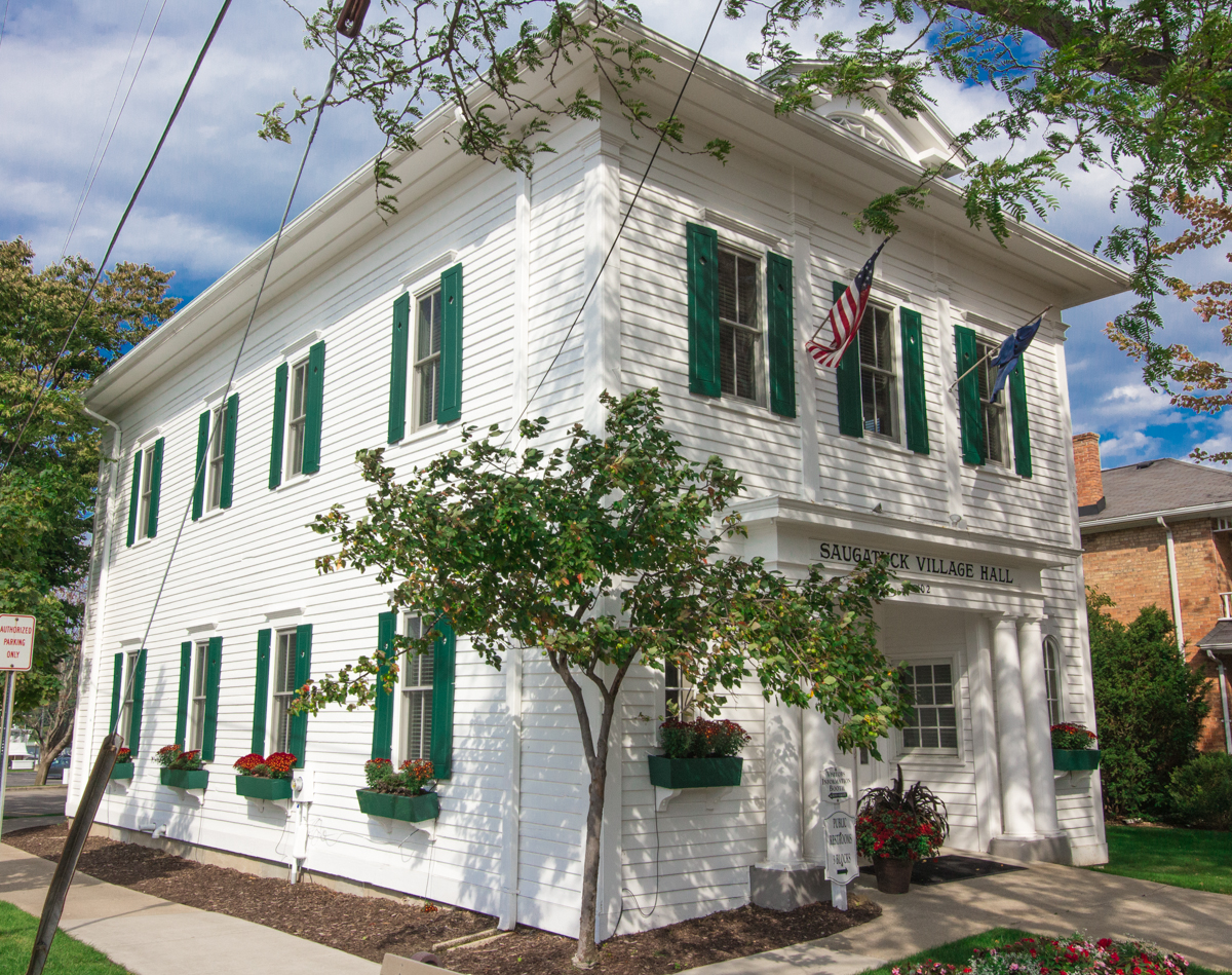 100px